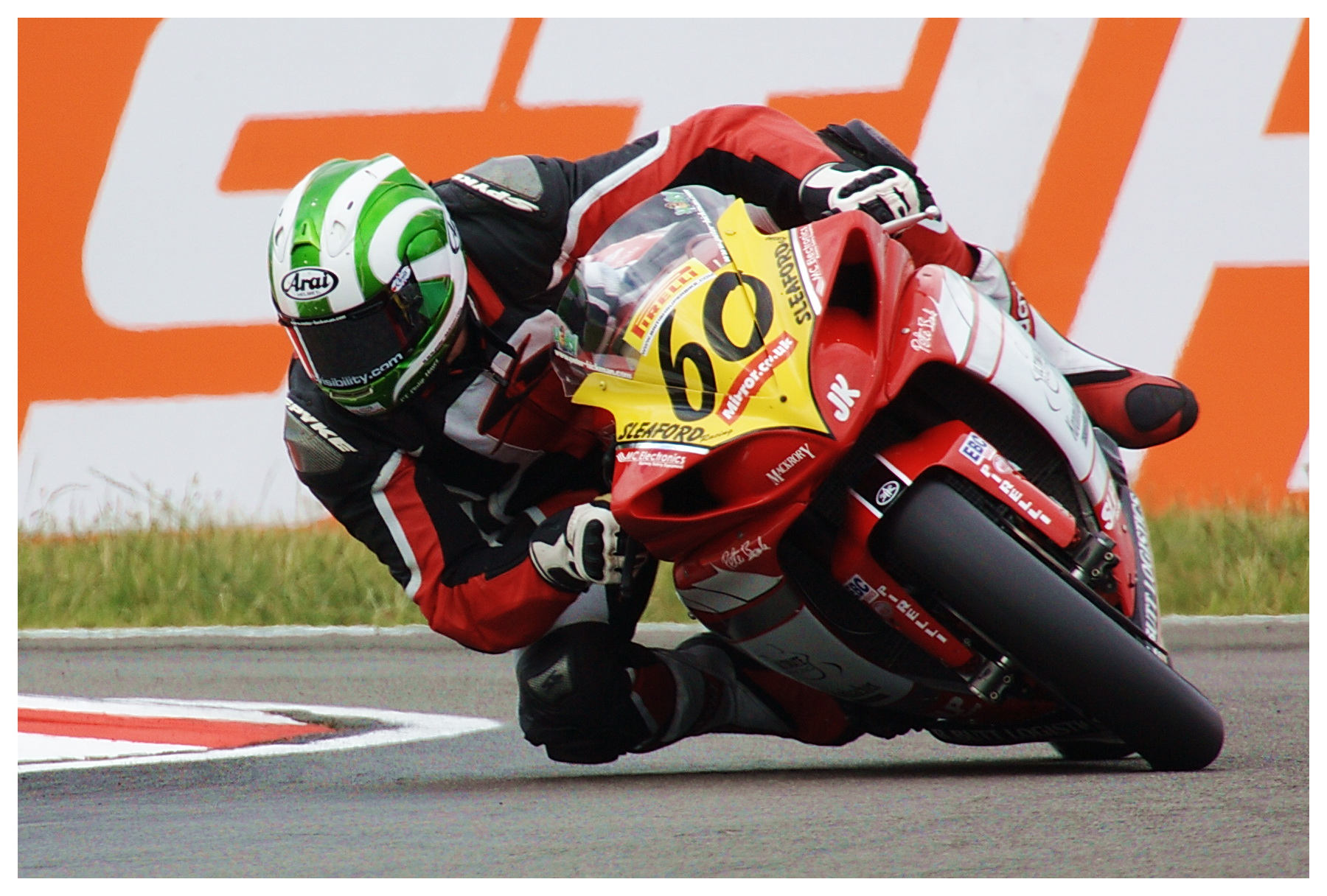 Peter Hickman riding the Ultimate Racing Yamaha during the 2009 British Superbike Championship at Snetterton.